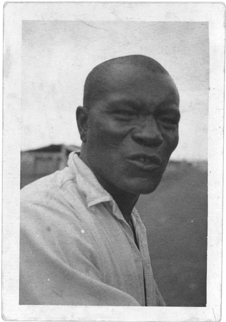 James Baker (Iron Head), head-and-shoulders portrait, facing right, Sugar Land, Texas c1934 photgraphed by John Lomax